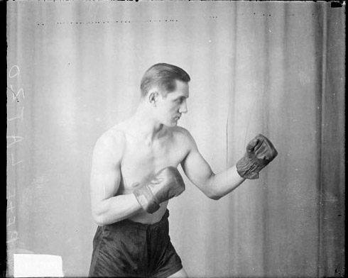 "Three-quarter length portrait of pugilist Pete Latzo standing in profile in a boxing stance in front of a light-colored backdrop in a room in Chicago, Illinois."